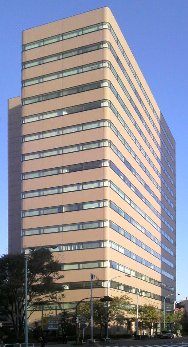 URBAN NET IKEBUKURO